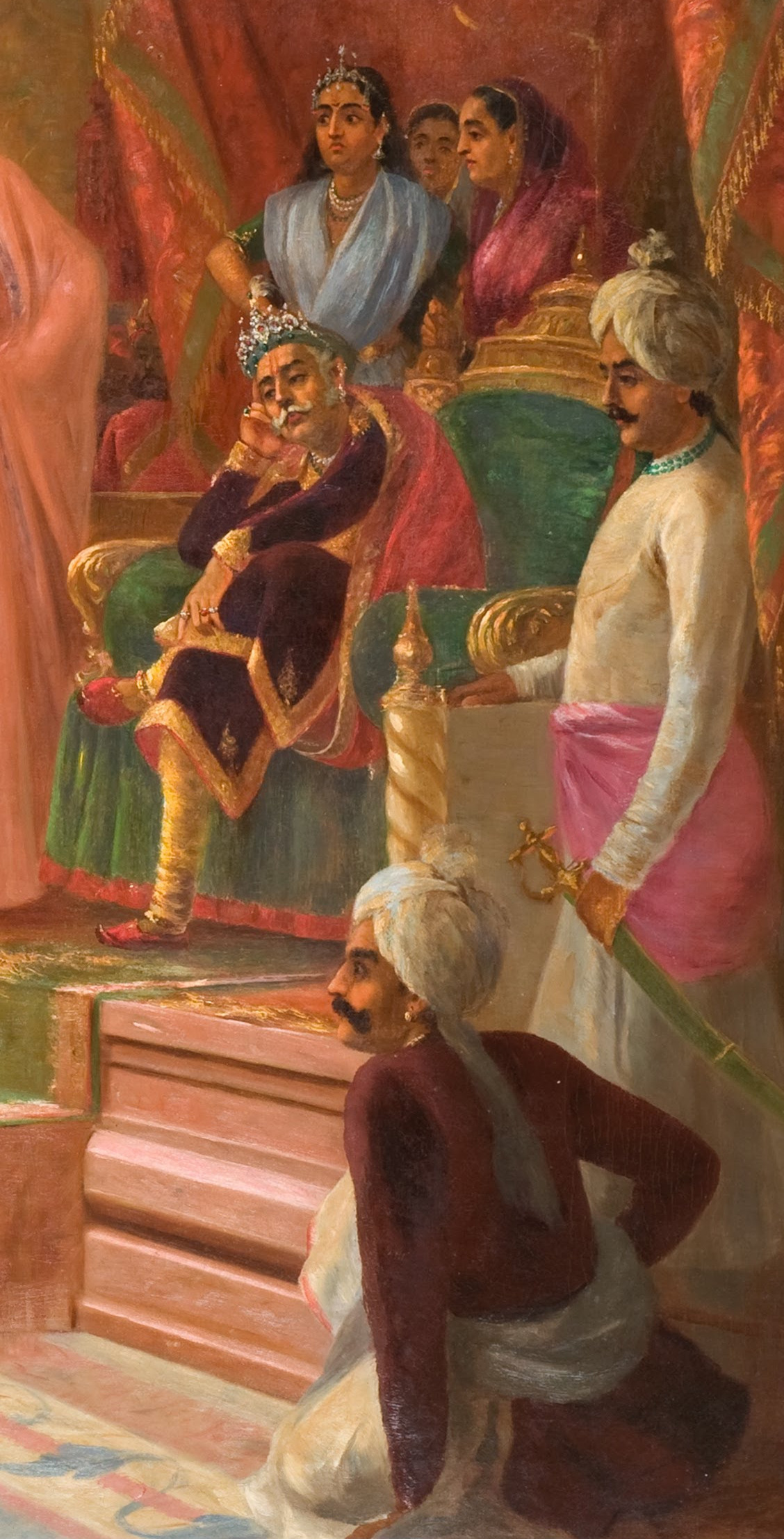 Draupadi as humiliated in Virata's durbar by Kichaka (left).